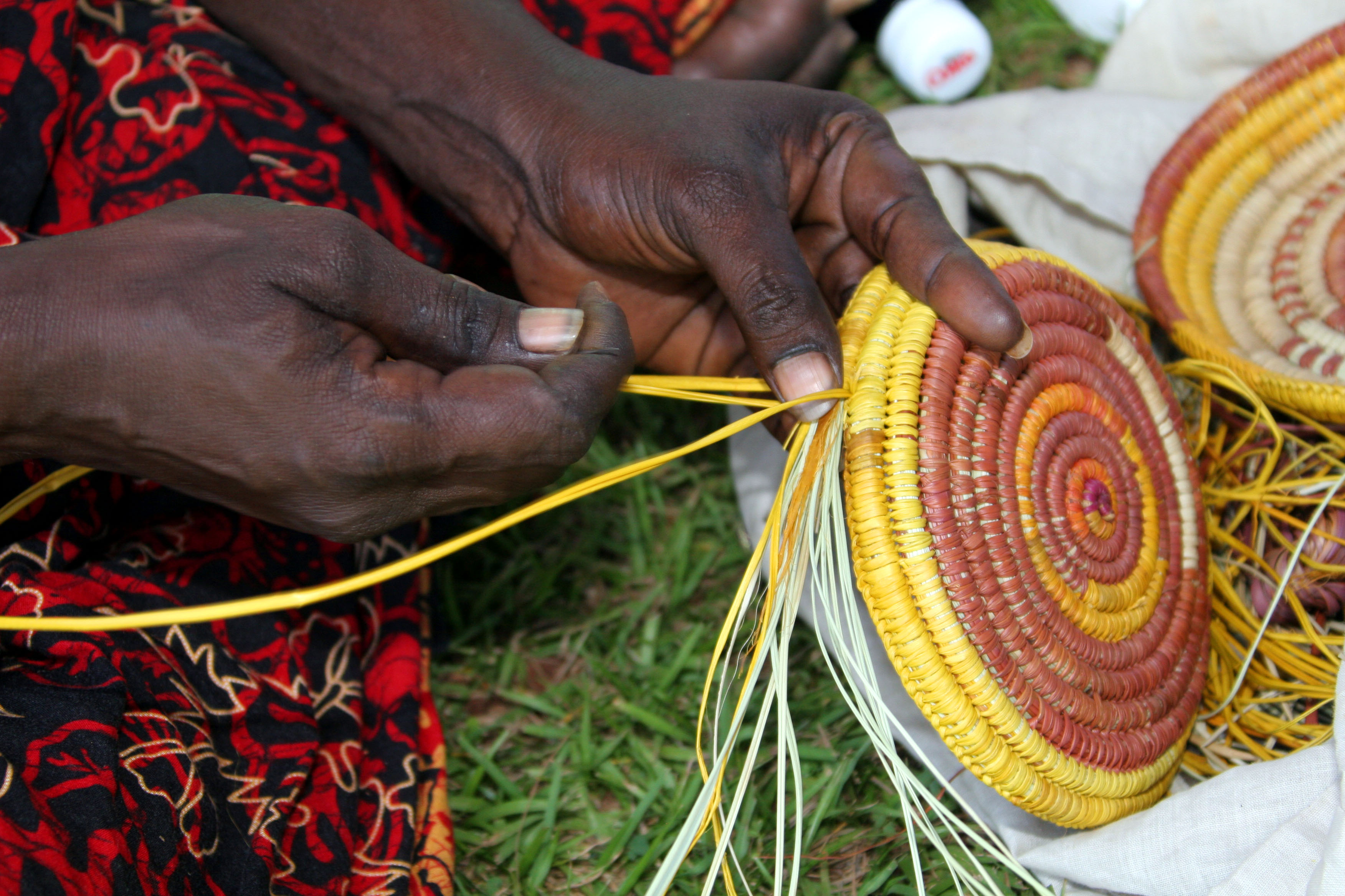 Christine Owney, a Jawoyn tribe resident of the Manyallaluk/Eva Valley community, weave baskets from tree roots. Many Aboriginal women of the Northern Territory are expert weavers. The harvested tree roots used to make the basket are naturally dried in sunlight, then soaked and boiled with natural dyes from the bush.